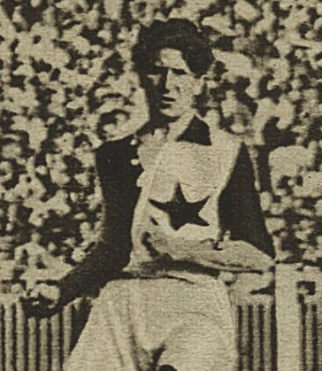 František Černický, austrian footballer of czech origin